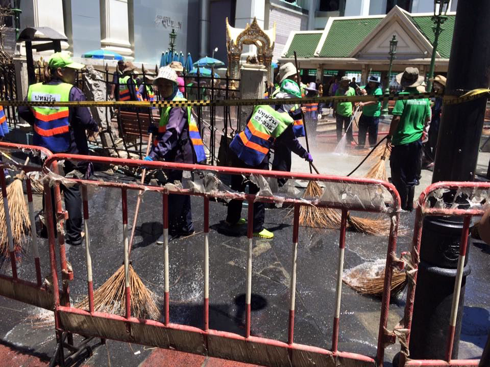 Clean-up crews work at the Erawan Shrine, site of a bomb explosion in central Bangkok, Thailand, Aug. 18, 2015.